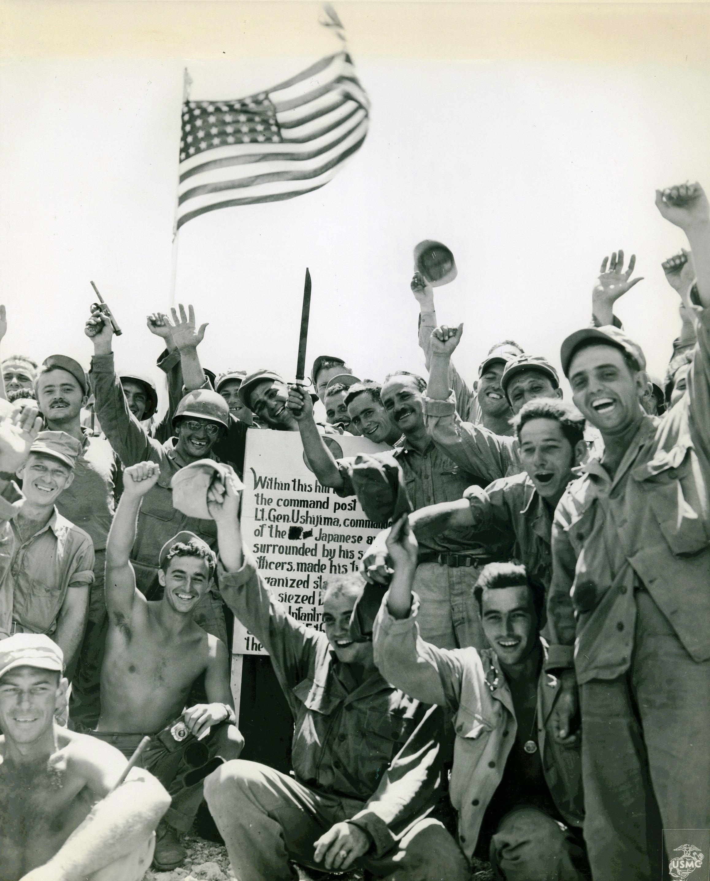 The caption on this photograph reads "Celebration on Hill 89-First Division Marines and Seventh Division Soldiers cheer the victory atop hill #89 after the official flag raising ceremonies. The sign reads "Within this hill is sealed the command post where Lieutenant General Ushijima commander of the Japanese Army surrounded by his senior officers made his final stand. This hill was seized by troops of the Seventh Infantry Division on June 21, 1945, thus ending the battle of Okinawa."" From the Photograph Collection (COLL/3948), Marine Corps Archives & Special Collections OFFICIAL USMC PHOTOGRAPH